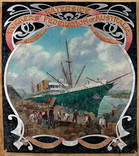 A 1920s Waterside Workers' Federation of Australia banner. In the collection of the National Museum of Australia.